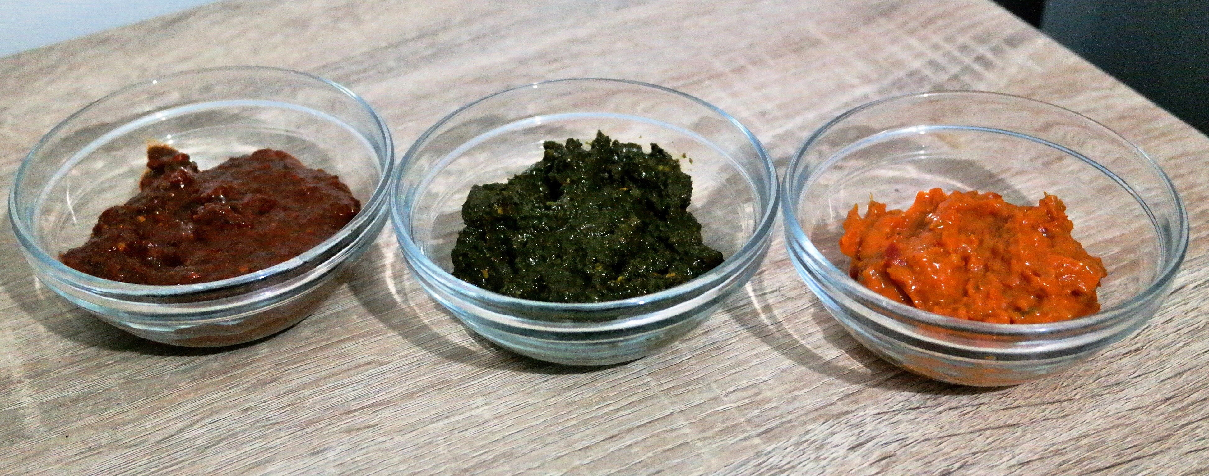 Three small bowls containing smoked, green and red shkug (Yemeni Arabic: سحوق, saḥawiq; Hebrew: סחוג, S'ḥug)